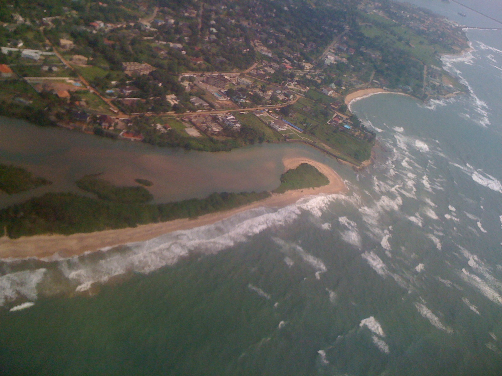 Taken by Mac-Jordan Degadjor with a Apple iPhone 3G camera. The Virgin Island in Sekondi-Takoradi.